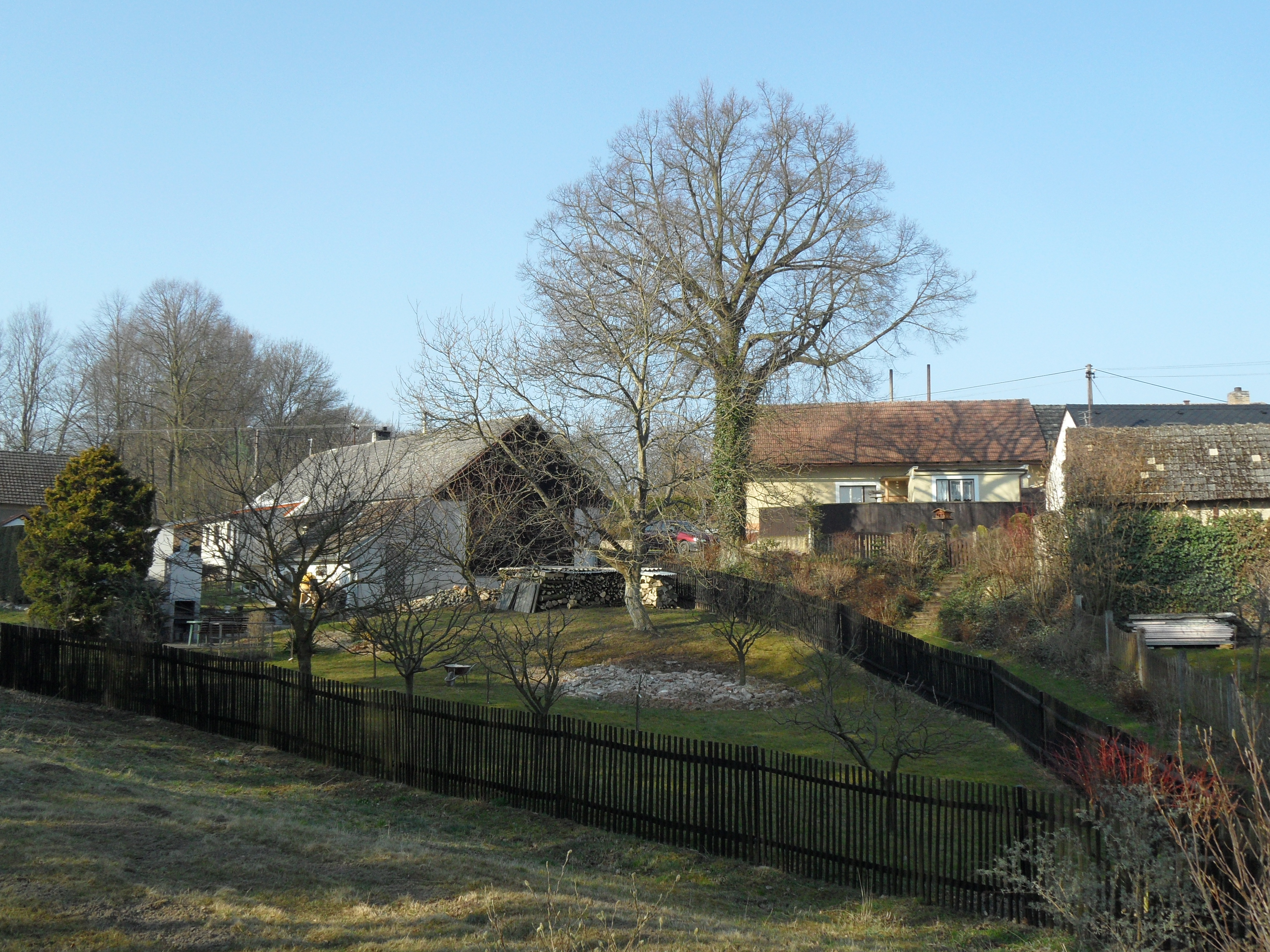 Římovice E. Building with Wooden Fence and Large Tree. Havlíčkův Brod District, the Czech Republic.